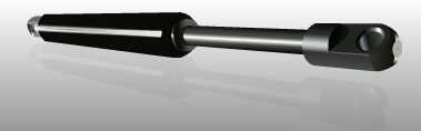 Author: Wesley Aarsen